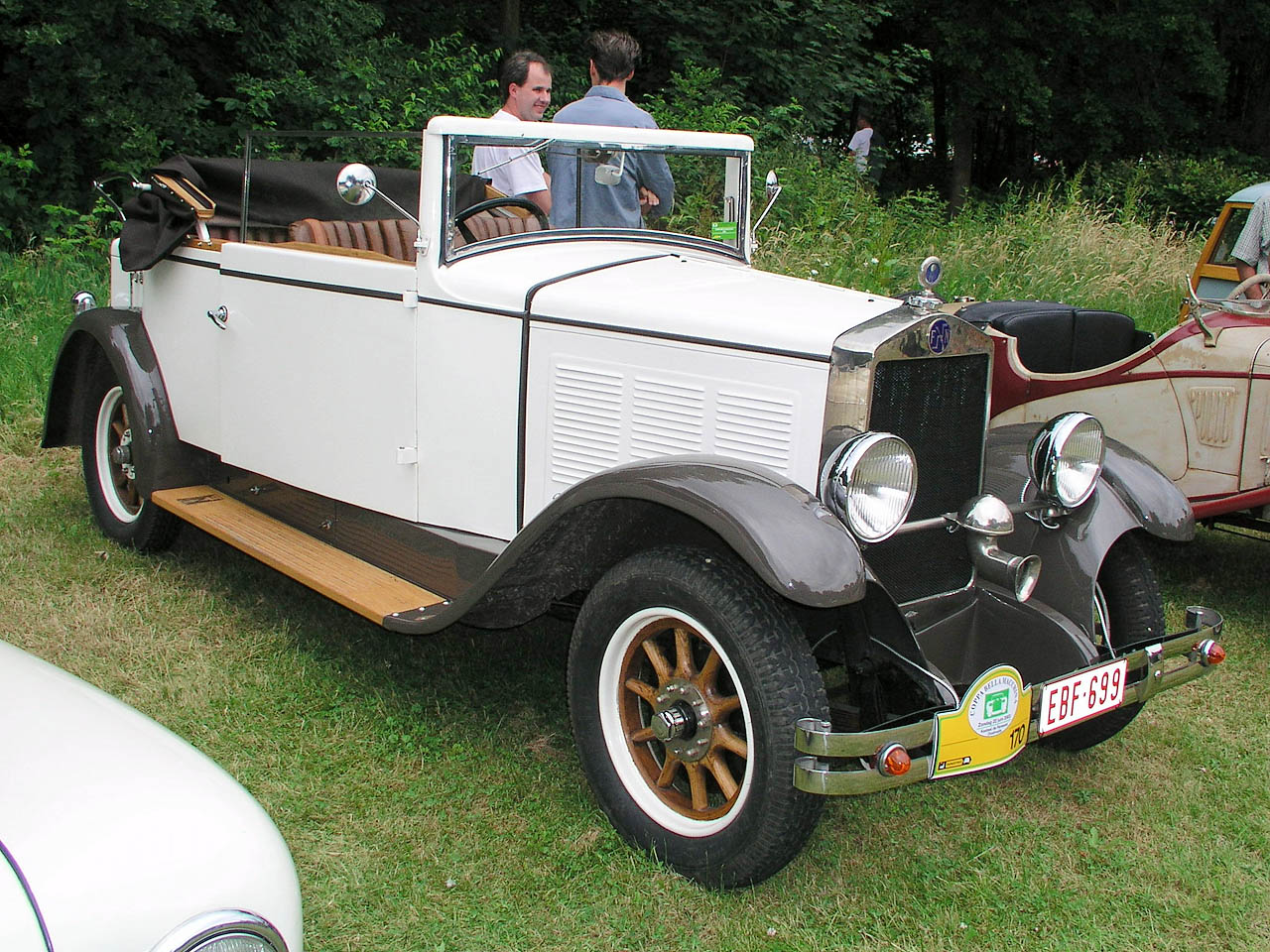 1.625 litre 4-cylinder touring car with convertible body, made in Belgium by Fabrique Nationale d'Armes de Guerre; front-side view